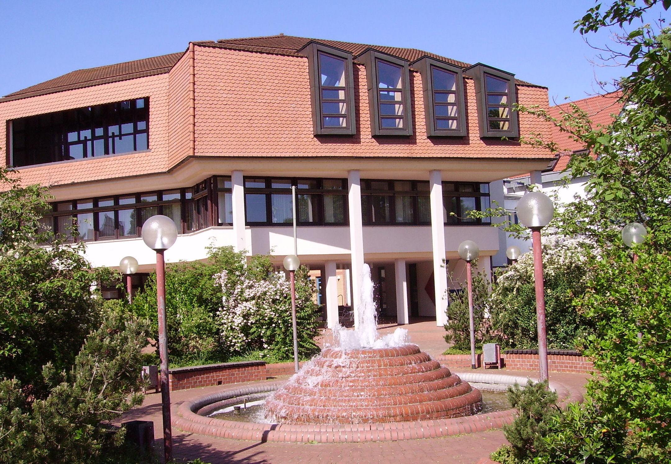 view of Mutterstadt, Germany